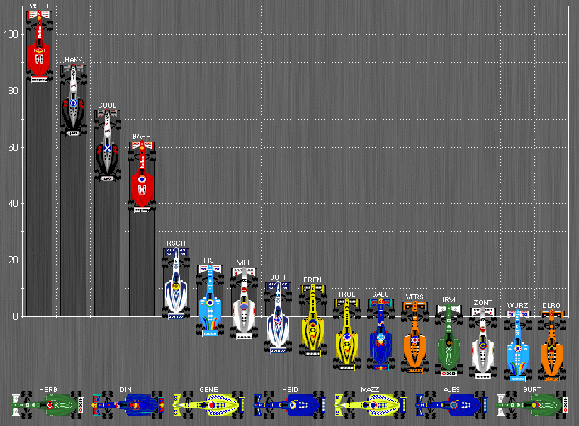 chart of final standings of 2000 Formula One season